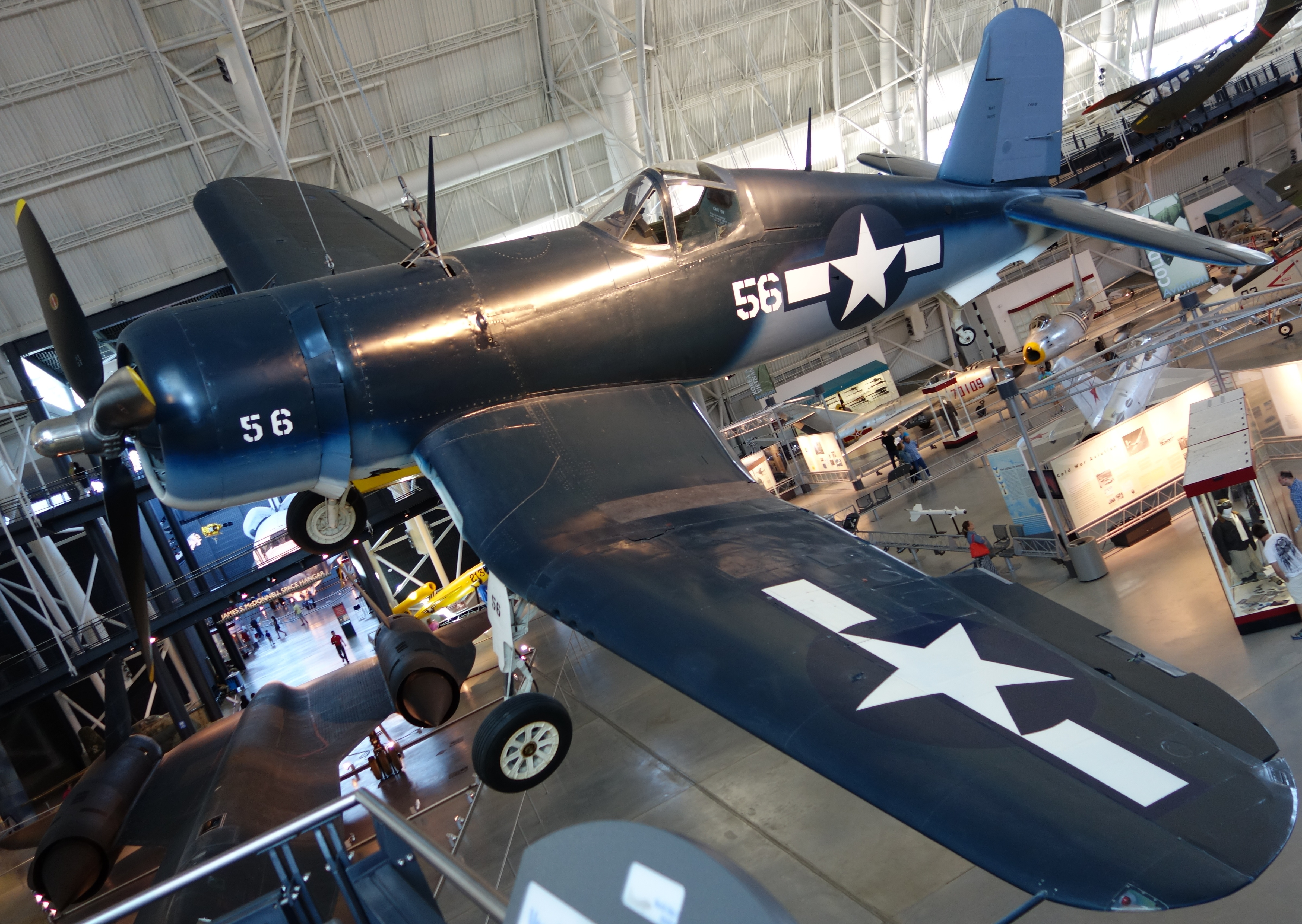 Vought F4U Coursair on display at the Steven F. Udvar-Hazy Center of the National Air and Space Museum.